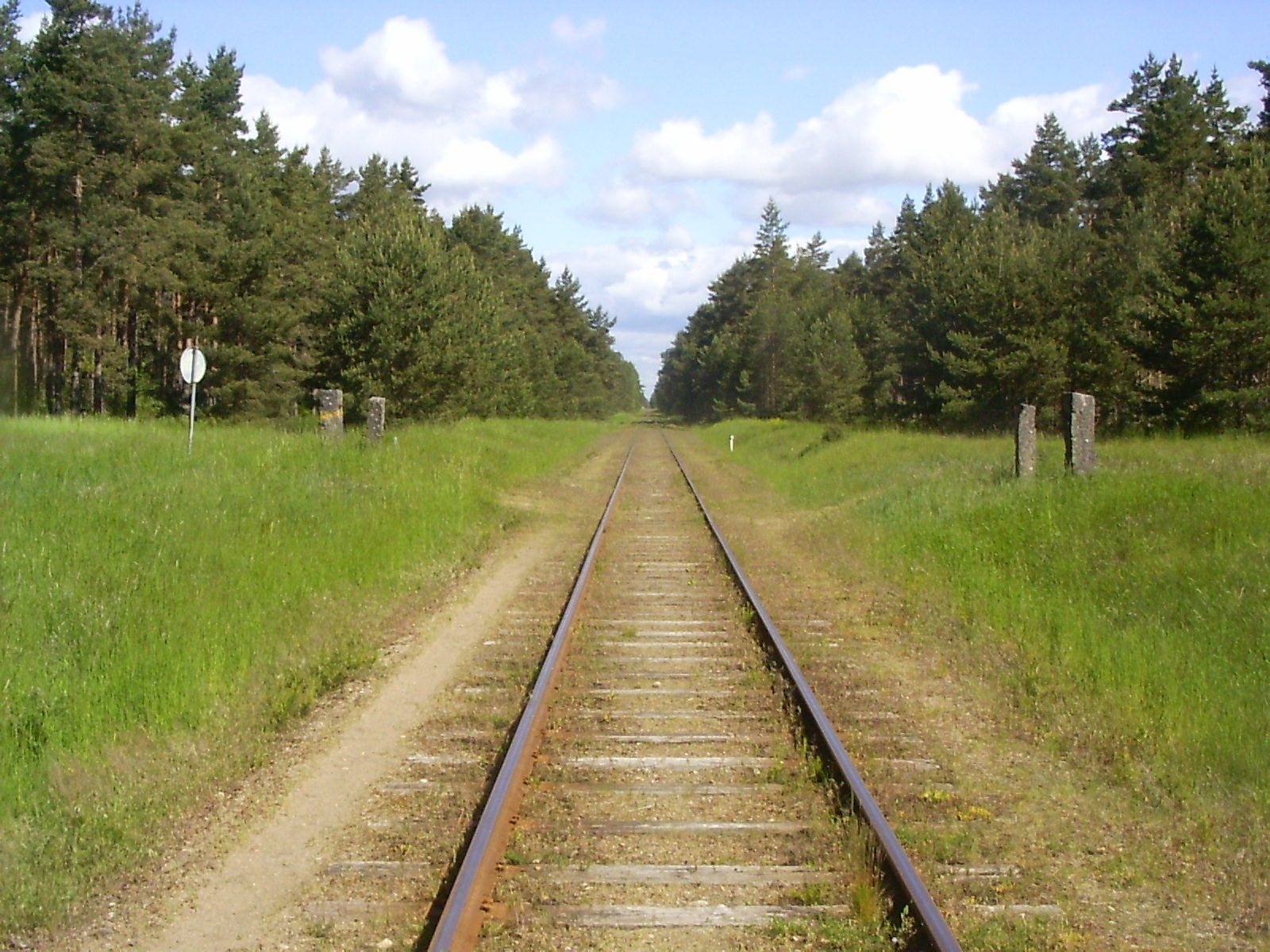 Åhusbanan north of Åhus